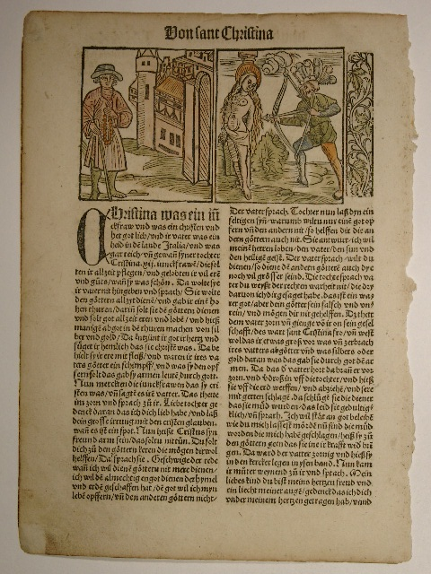 Jacobus de Voragine: Heiligenleben. Der Heiligen Leben. (Legenda aurea, German.) (VD16 H1477) Page LXXX: About Sant Christine, Christina the Astonishing, also known as Christina mirabilis